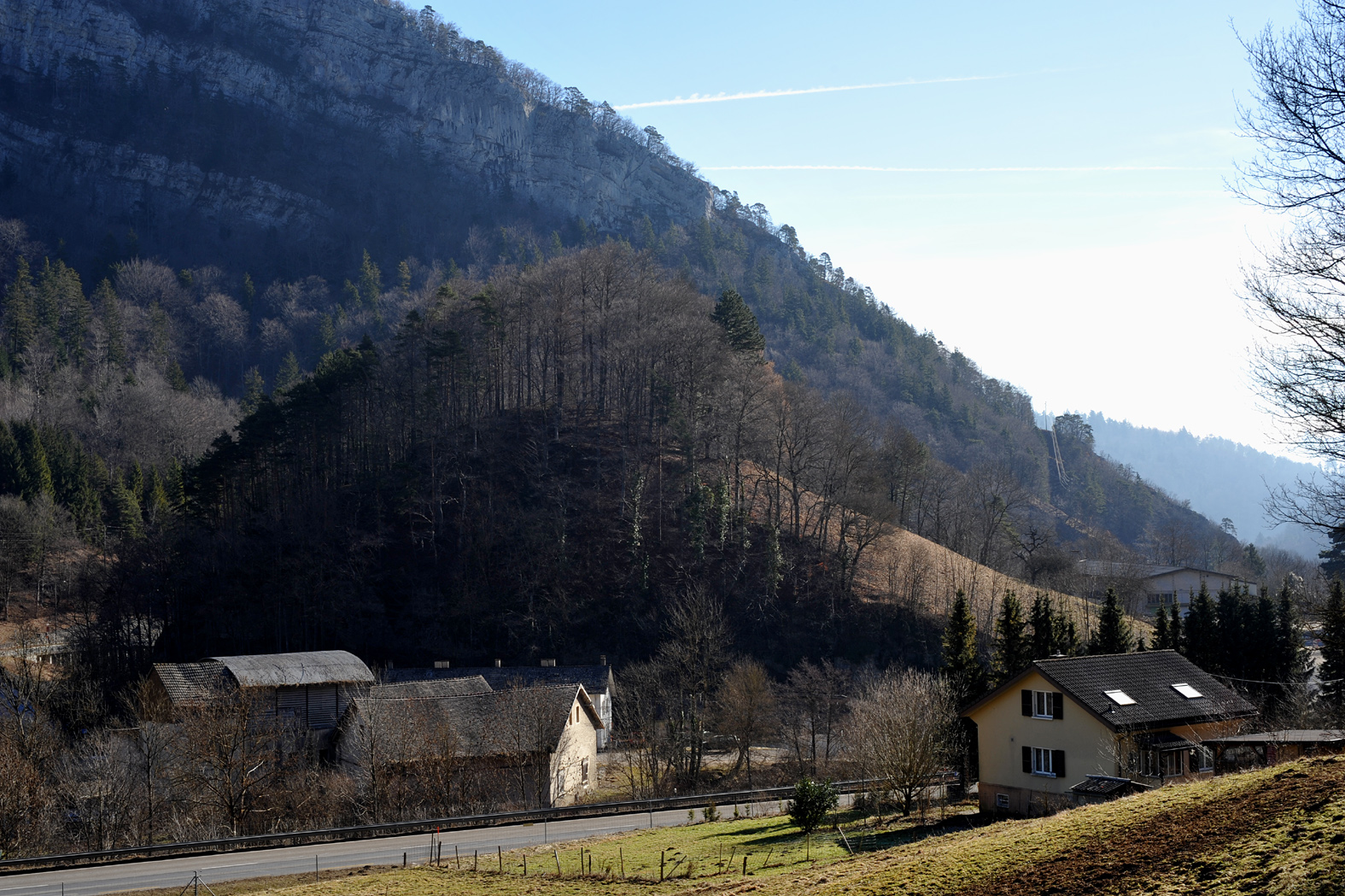 Rondchâtel, the «castle hill»; Berne, Switzerland.